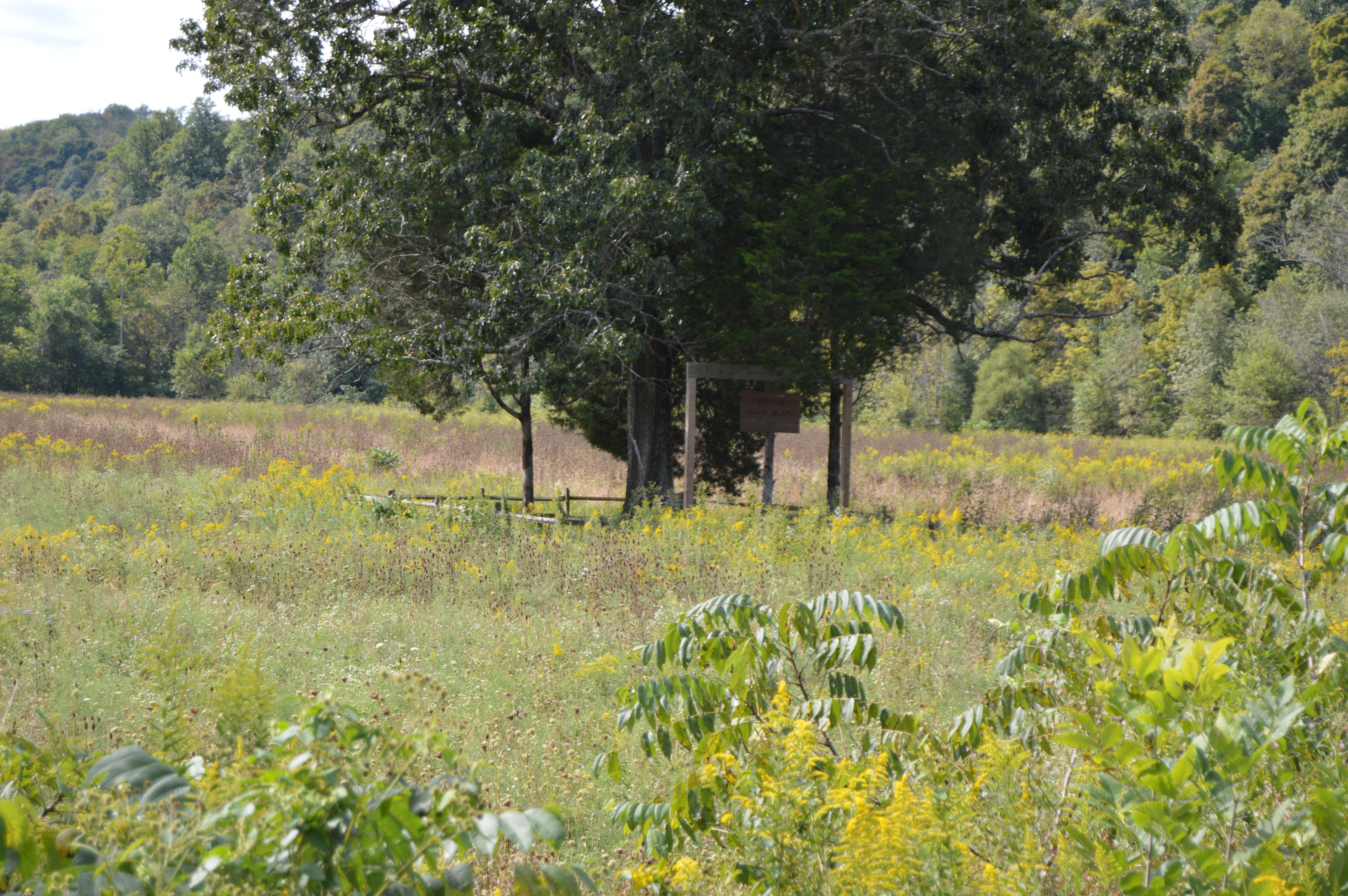 Overview from the east of the Book Site, an Indian mound and archaeological site located on the western side of Indian Mound Road in Beale Township, Juniata County, Pennsylvania, United States. The mound and surrounding site are listed on the National Register of Historic Places.